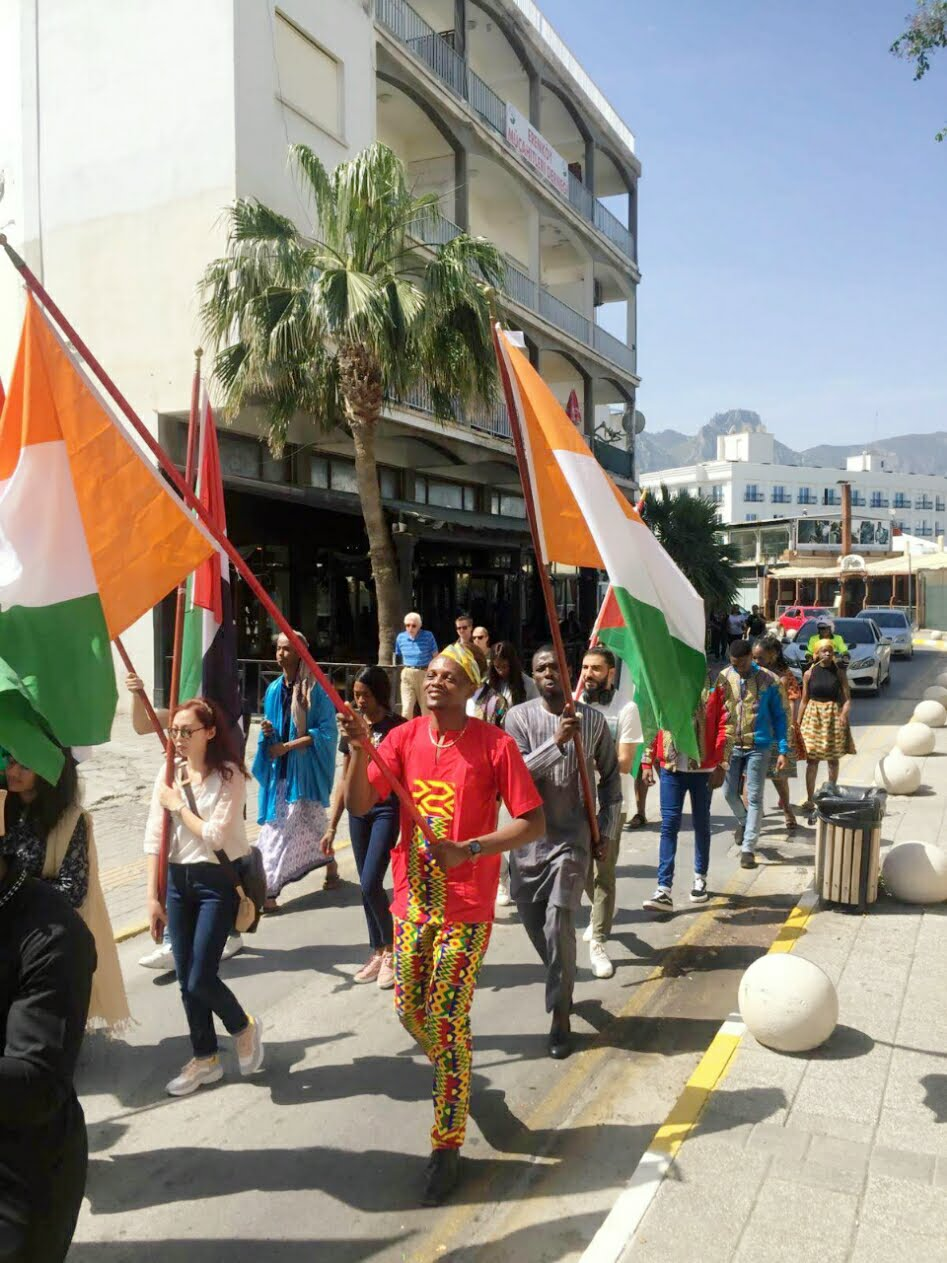 This is an image with the theme "Africa on the Move or Transport" from: Ivory Coast